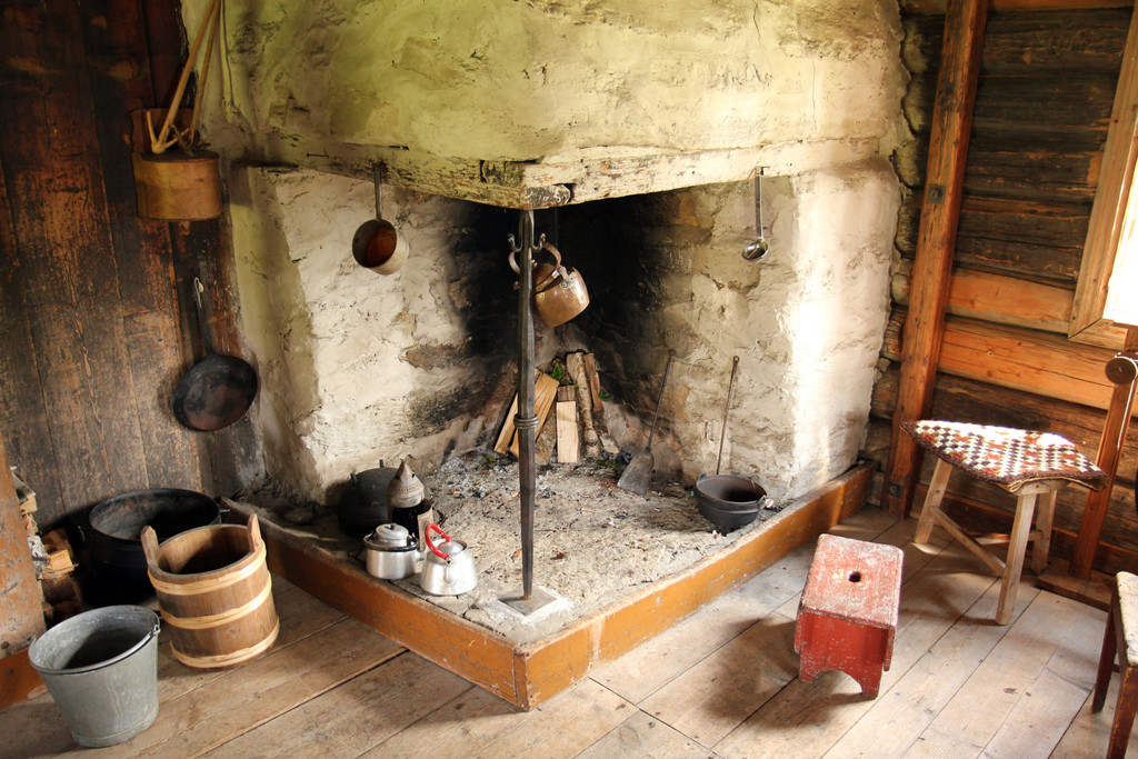 Norwegian hearth.